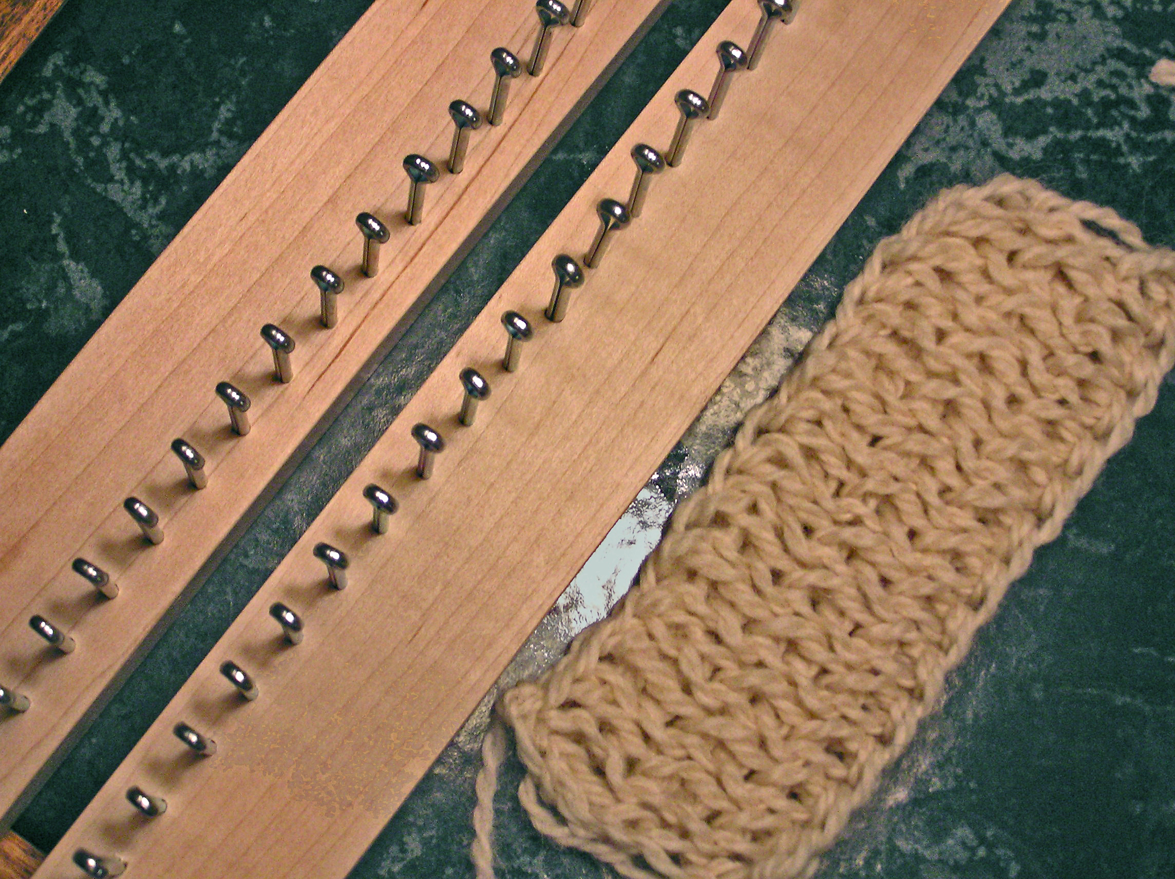 Knitting board.